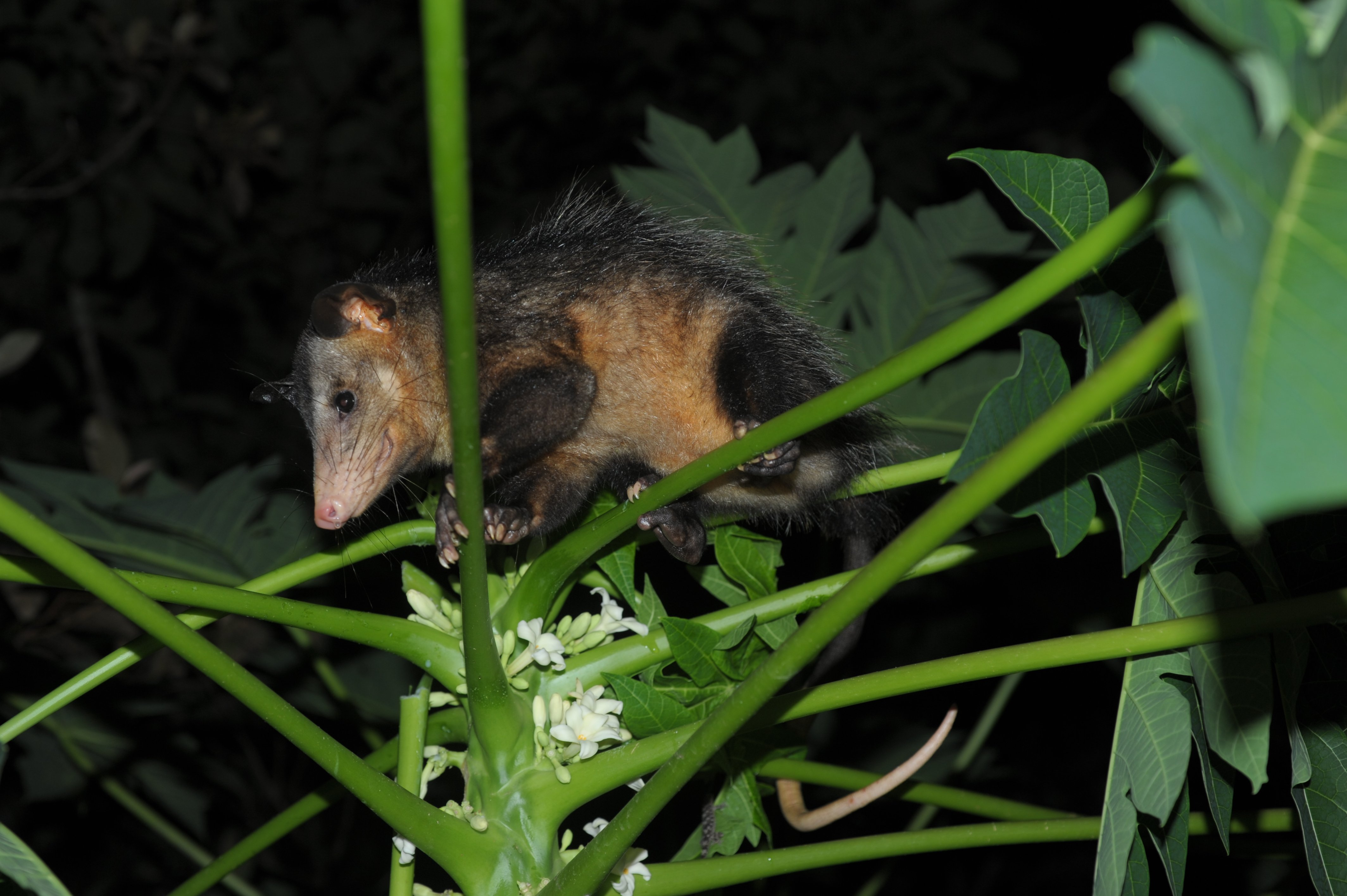 Common opossum on a papaya plant. Garden in Bragança, Pará, Brazil